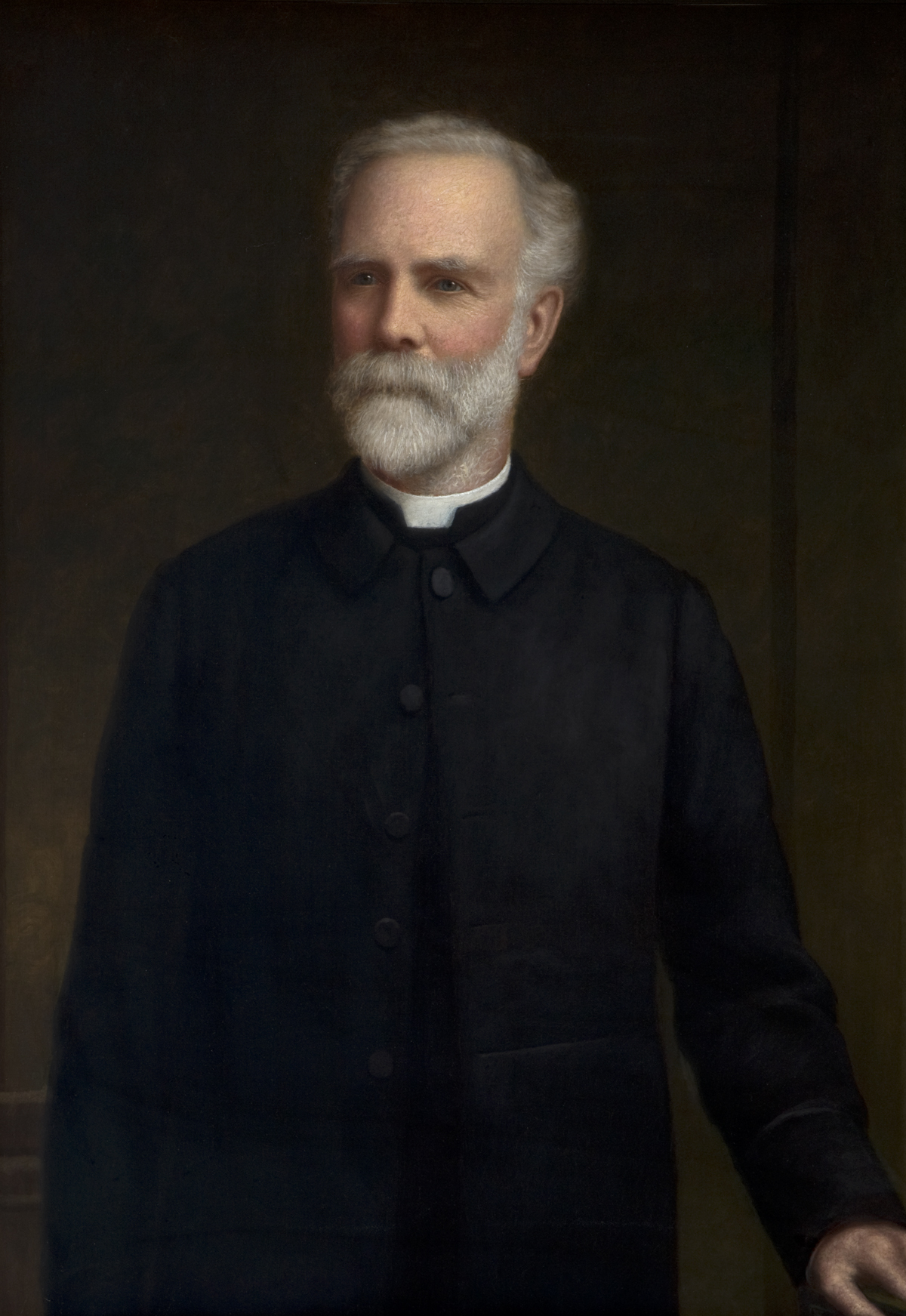 Portrait of Josias Leslie Porter (1823–1889), Irish Presbyterian minister.